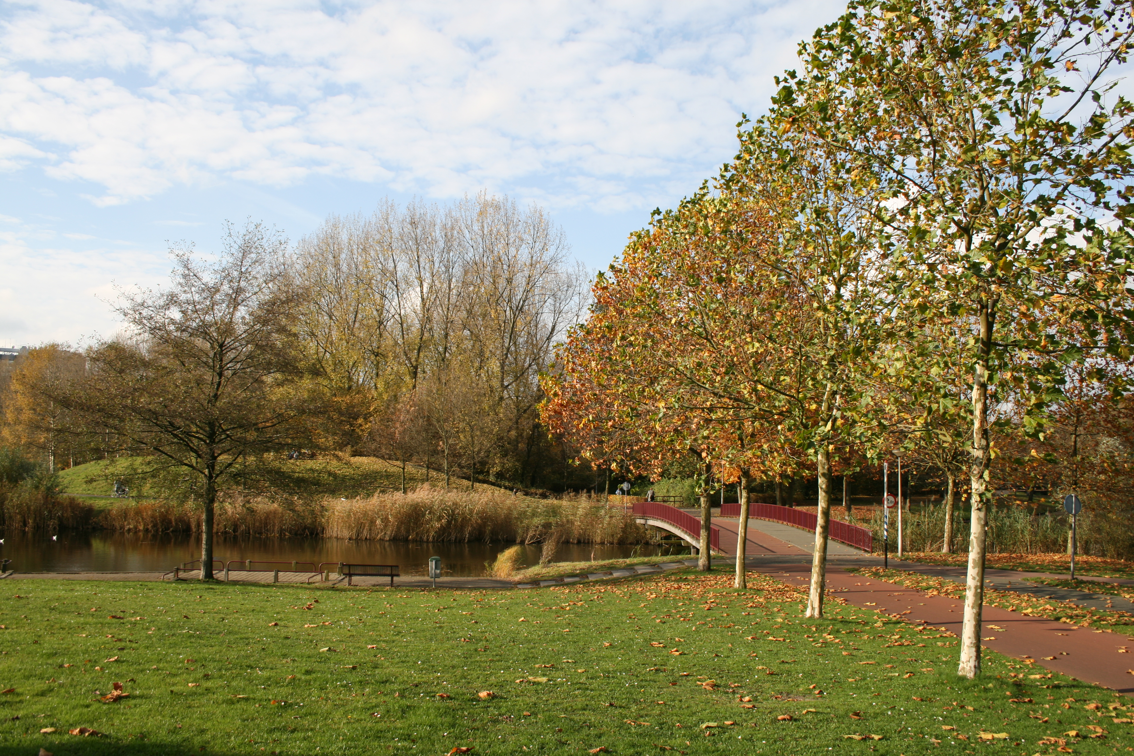 The Beatrixpark is a park in South Amsterdam ("Zuid"). In the background is the RAI Exhibition and Convention Centre.